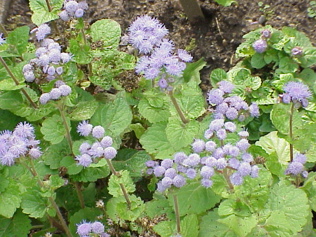 Species: Ageratum houstonianum Family: Compositae Image No. 4